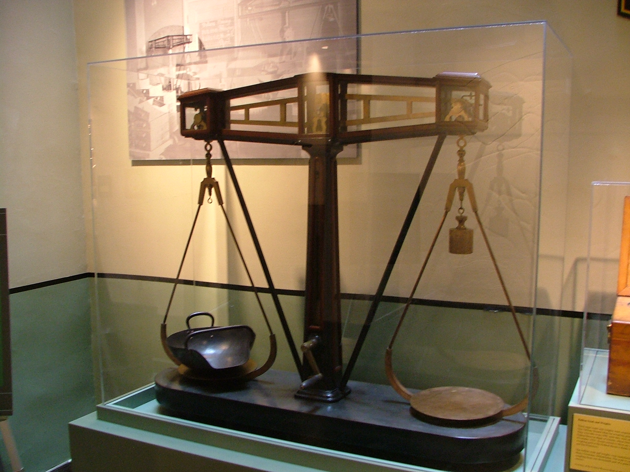 Coin scale, New Orleans Mint.